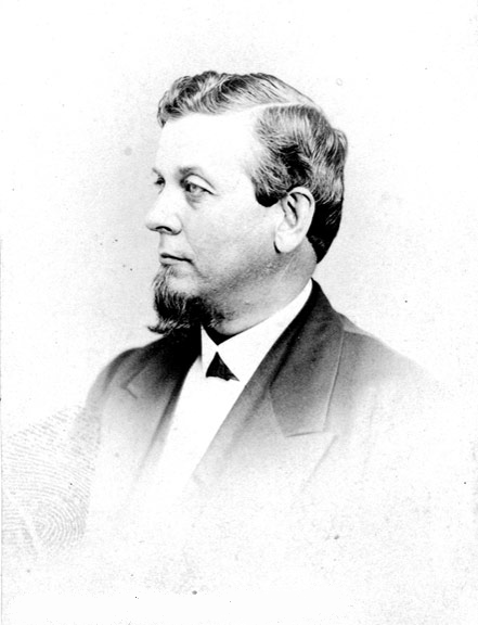 The image of Frederick Ferdinand Low, n.d..